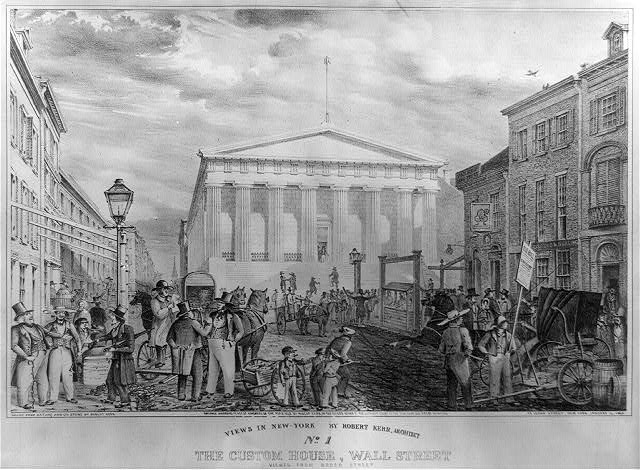 Views in New York by Robert Kerr, architect. No. 1, the Custom House, Wall Street viewed from Broad Street